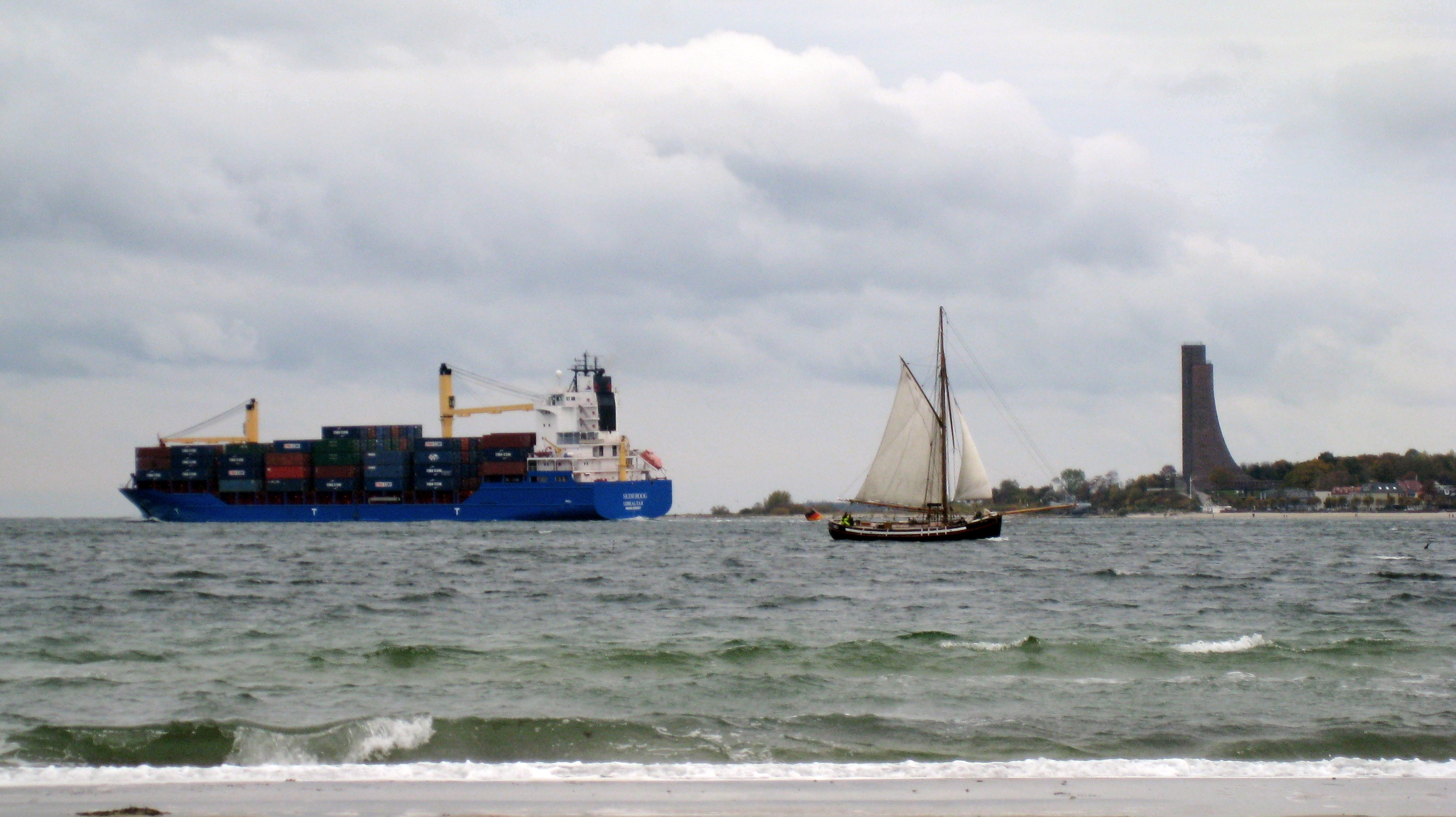 Large and small ships at Laboe near Kiel in Schleswig-Holstein in November 2008.